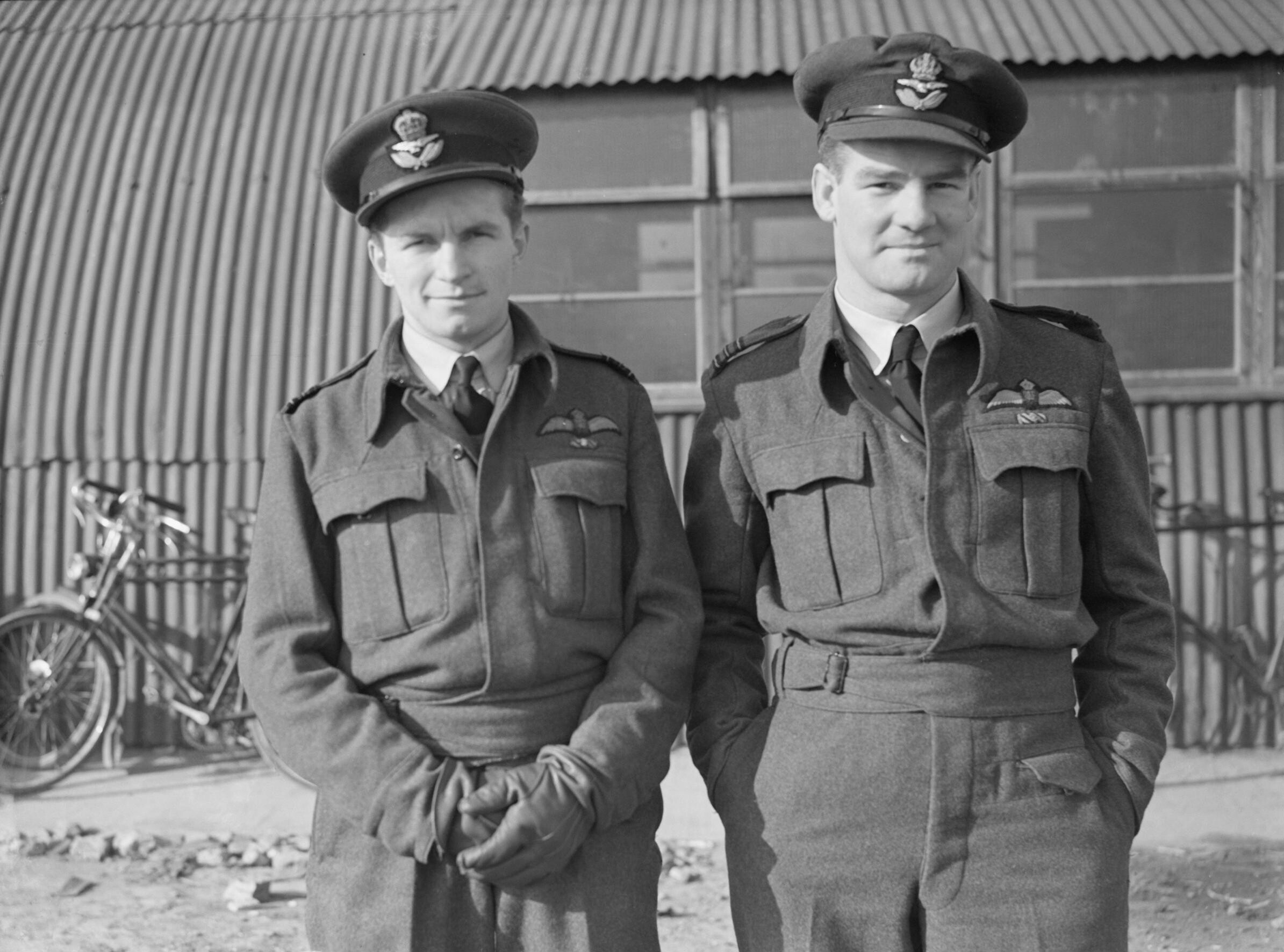 The Battle of Britain 1940 British Personalities: Wing Commander Alan Deere with Squadron Leader Denis Crowley-Milling DSO DFC.